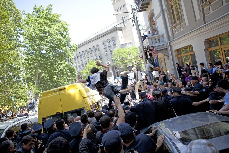 Protests in Tbilisi, Georgia, 2013-05-17